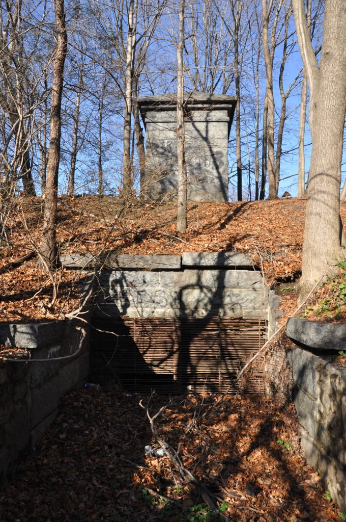 A waste weir and control house on the defunct Cochituate Aqueduct in Newton, Massachusetts.